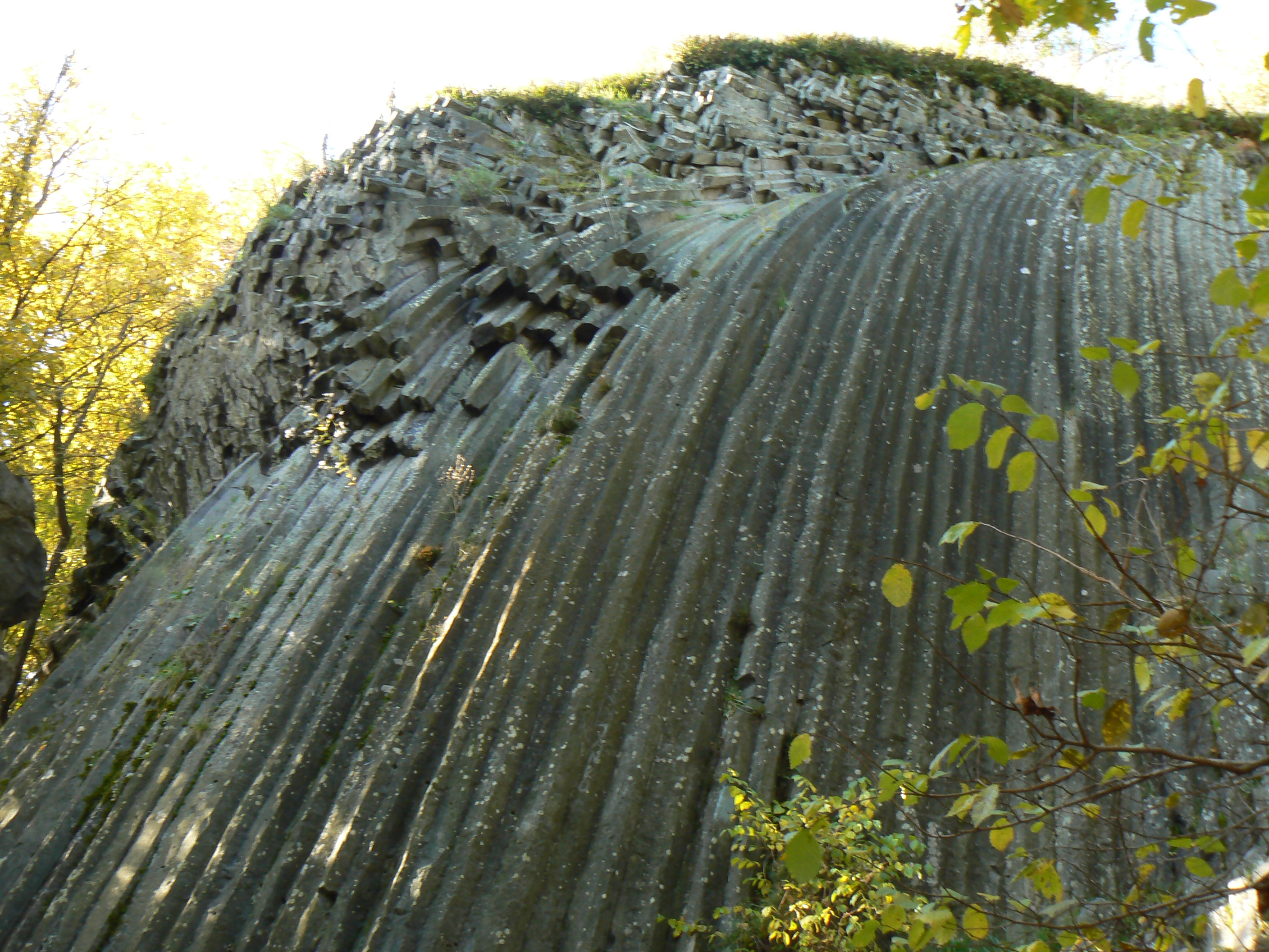 The stone waterfall nearby the Šomoška castle, located on the border between Slovakia and Hungary